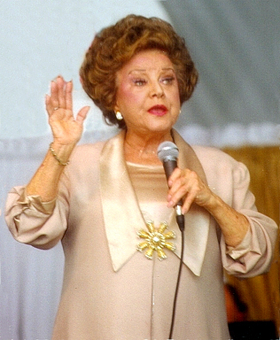 Kay Starr - January 1999 Photo by Alan C. Teeple User:ACT1